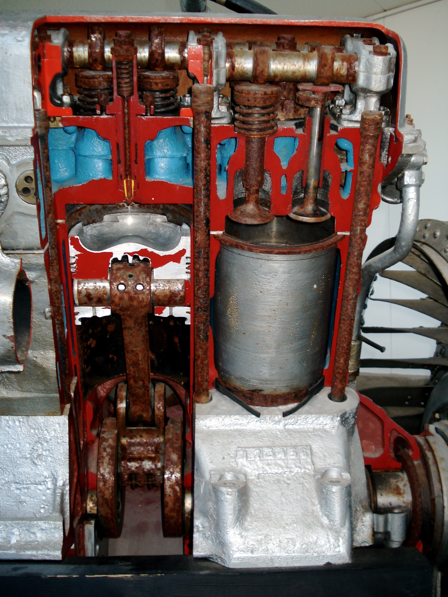 Engine (V-2-34) of Soviet T-34 tank displayed in Finnish Tank Museum (Panssarimuseo) in Parola. Some parts have been removed or cut to show the inner workings. Photo taken on July 14, 2006. Source: Photo by me, User:Balcer.